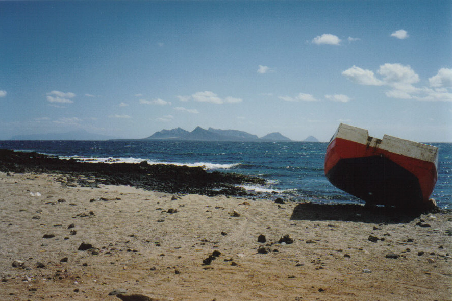 Santa Luzia Island, seen from Calhau, São Vicente Island, Cape Verde